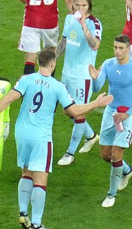 Burnley F.C. player Jeff Hendrick after the match against Manchester United on 29 October 2016.